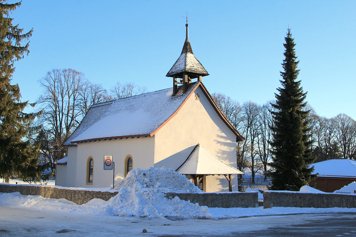 Chapel Notre Dame des Anges in the village of Enges NE (Switzerland)